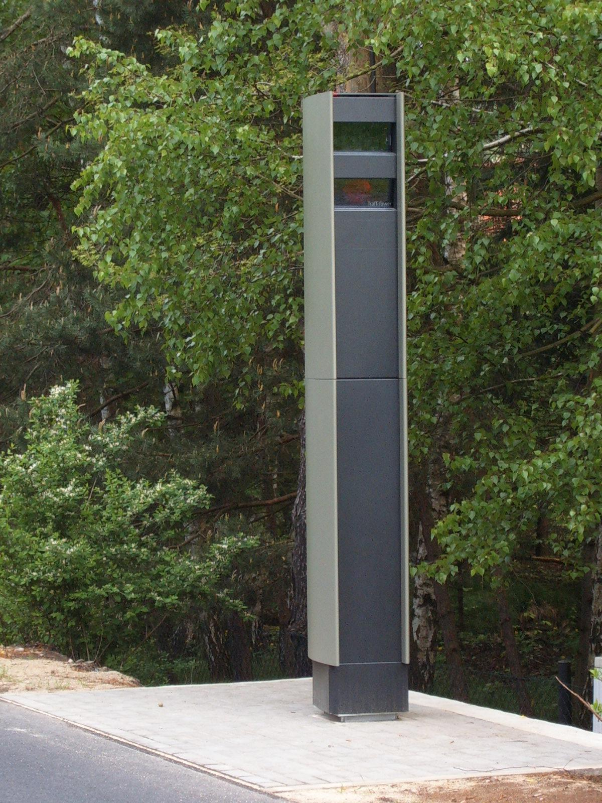 The Radar speed check near Moritzburg at the S81 in direction Großenhain.